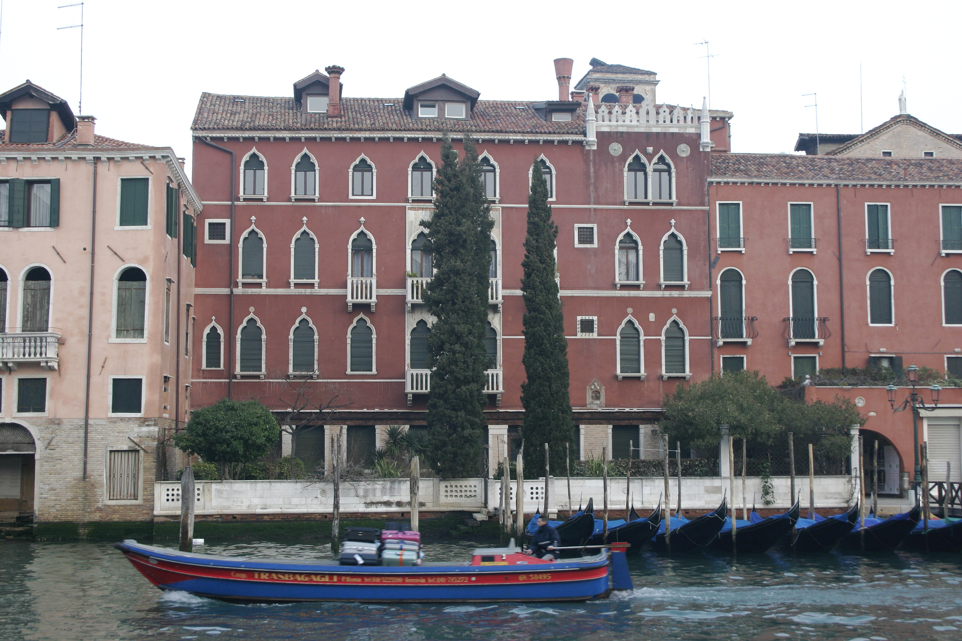 Venice - Gand Canal – Palazzo Ravà